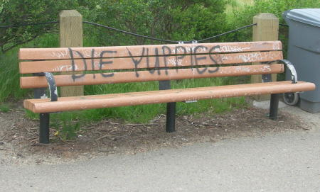 Cambridge Mass Gentrification slogan